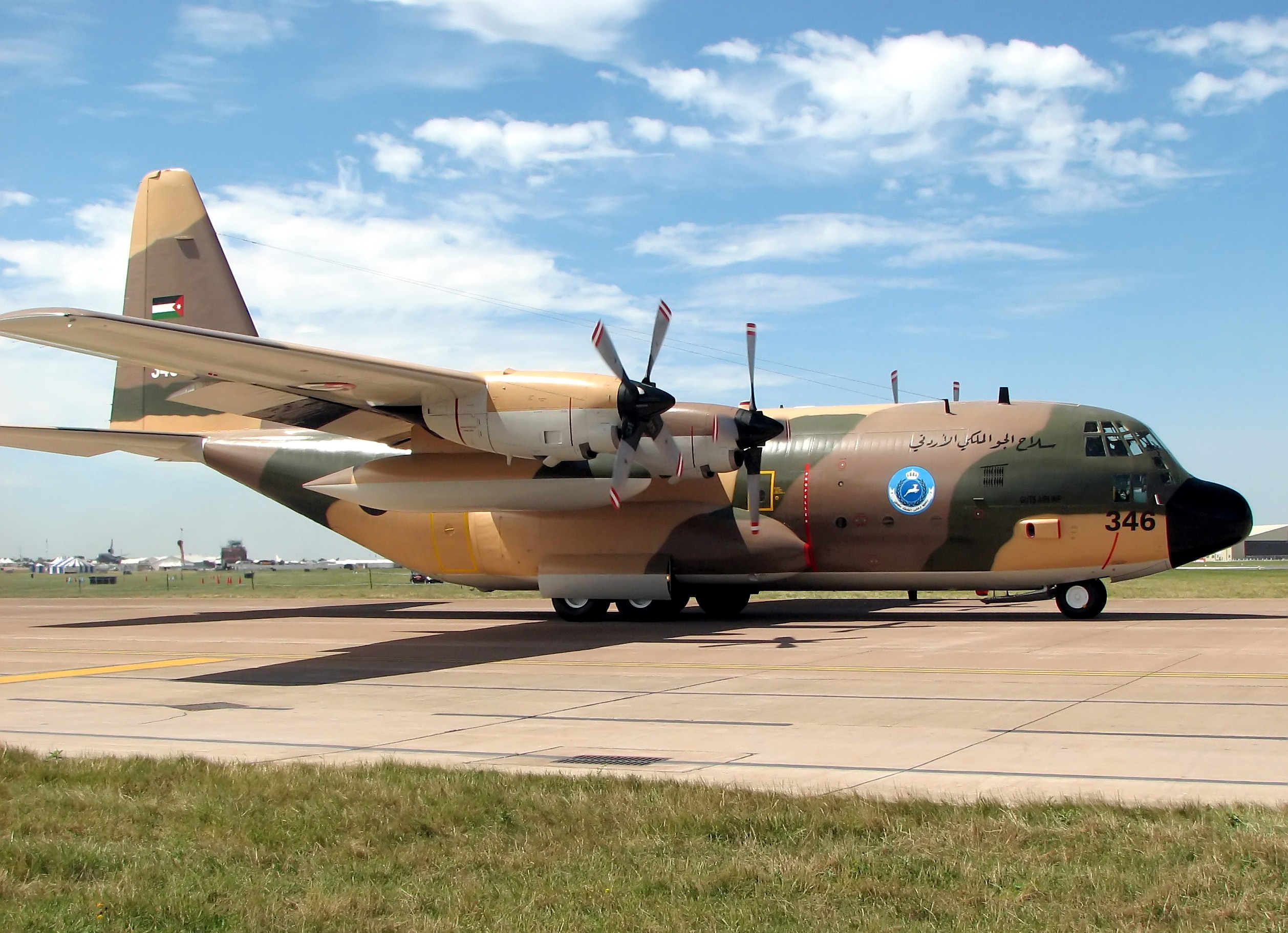 Hercules C-130H of the Royal Jordanian Air Force (identifier 346) taxis for takeoff at the Royal International Air Tattoo, Fairford, Gloucestershire, England.